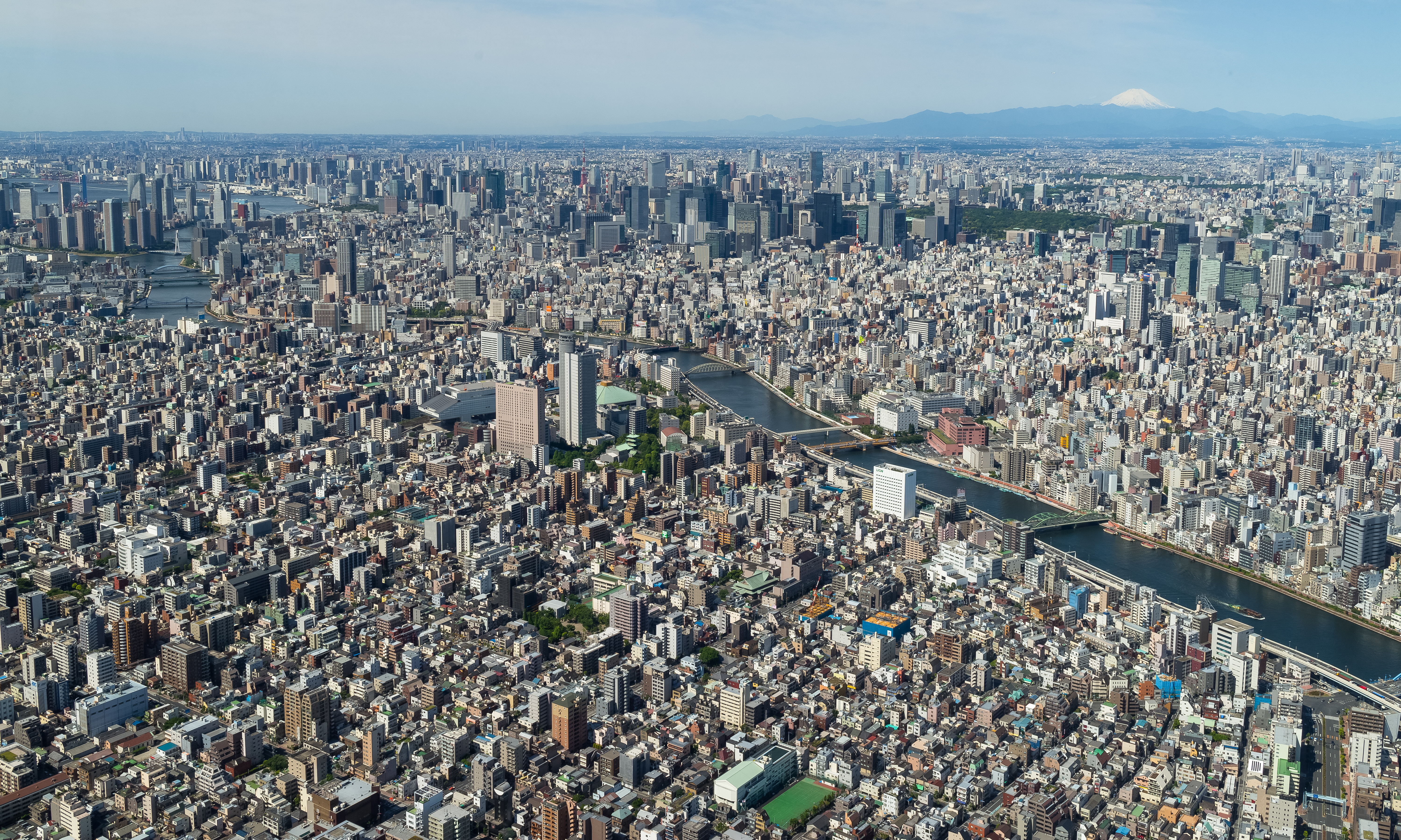 Clear view of Tokyo from the top of the SkyTree